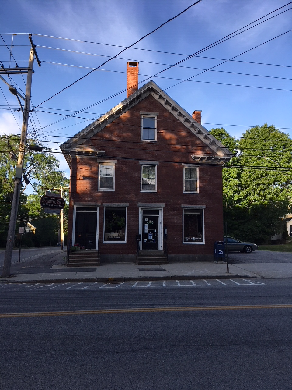 Runge's Rug Store, Yarmouth, Maine